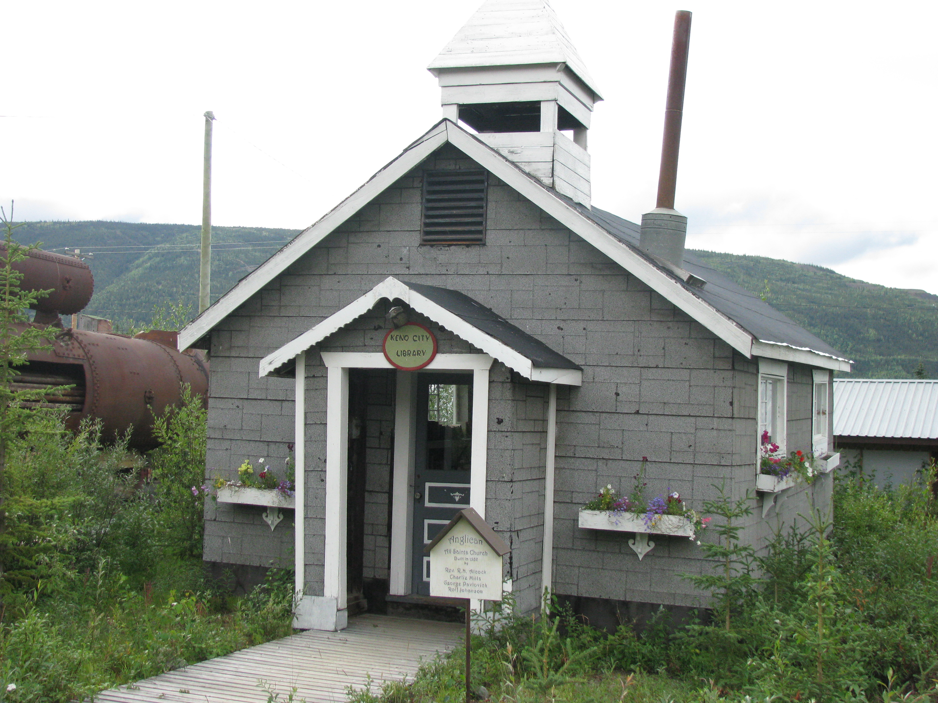 Anglican Church (now Library), Keno City, Yukon, Canada. Photographed on 10 August 2009. Joint ©© Arthur D. Chapman and Audrey Bendus.